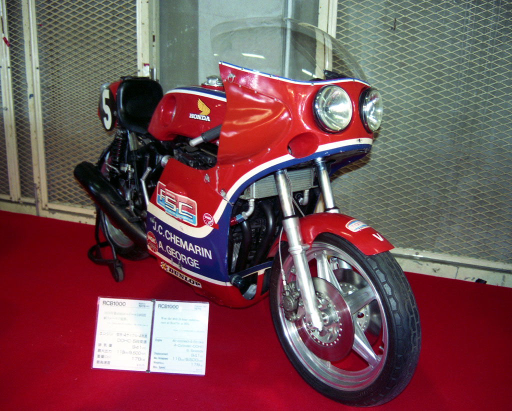 Honda RCB (1976 RCB480A, 24 Hours Bol d'Or)